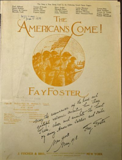 Cover Art